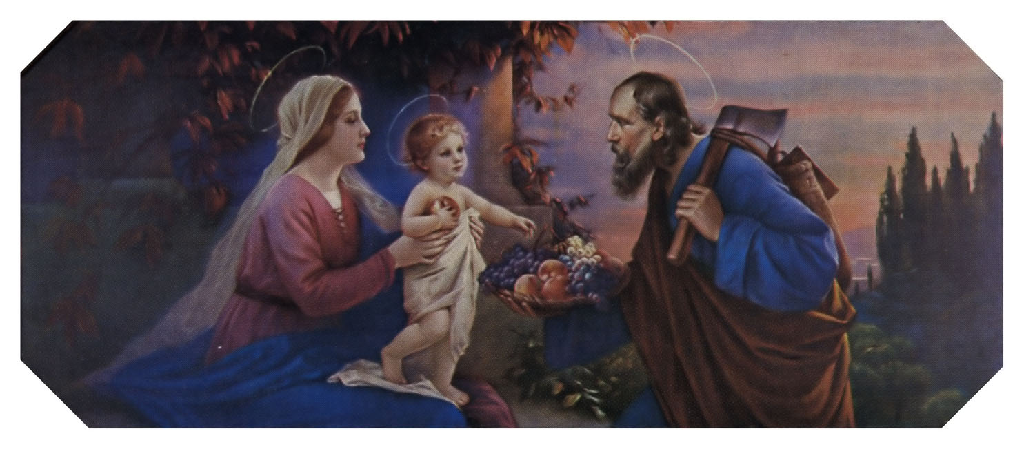 The Holy Family